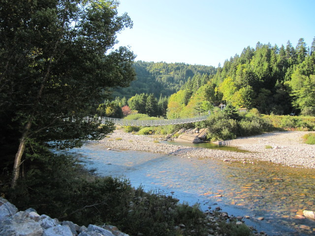 Across Big Salmon River, New Brunswick, Canada.